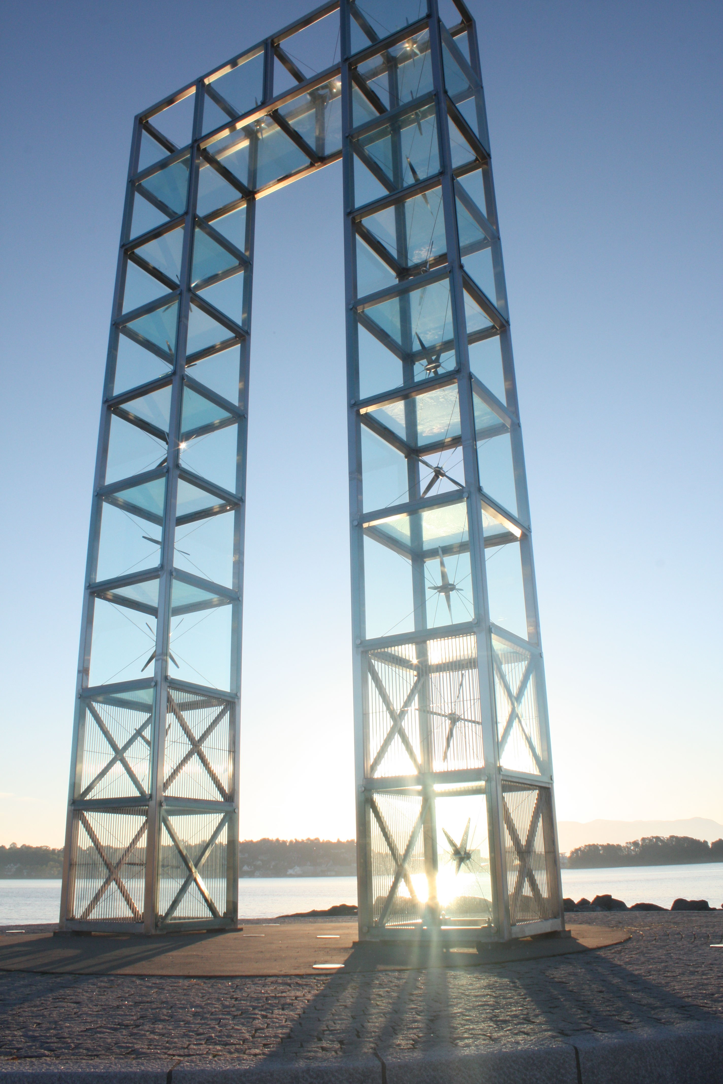 Gateway to Stord